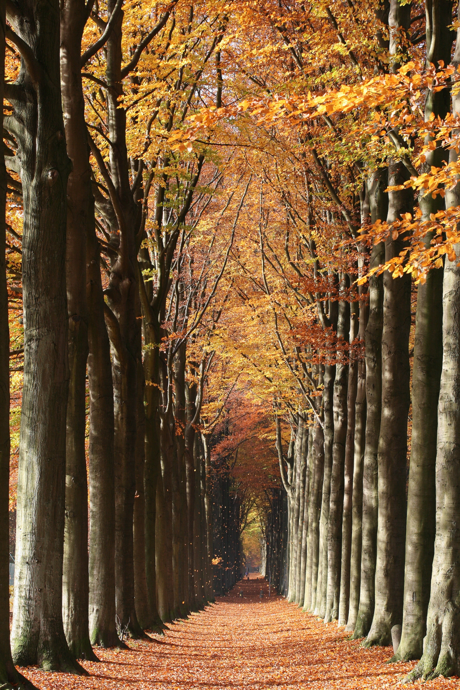 Morlanwelz-Mariemont (Belgium), the European beech walk linking Morlanwelz to Mariemont.